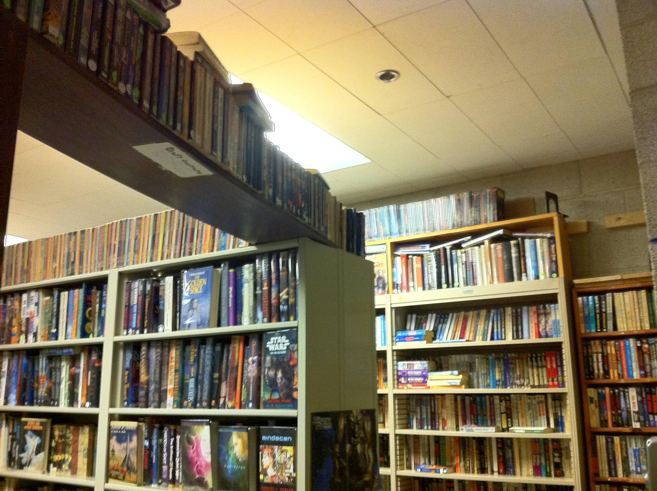 Photo of "temporary shelves" in MITSFS's library